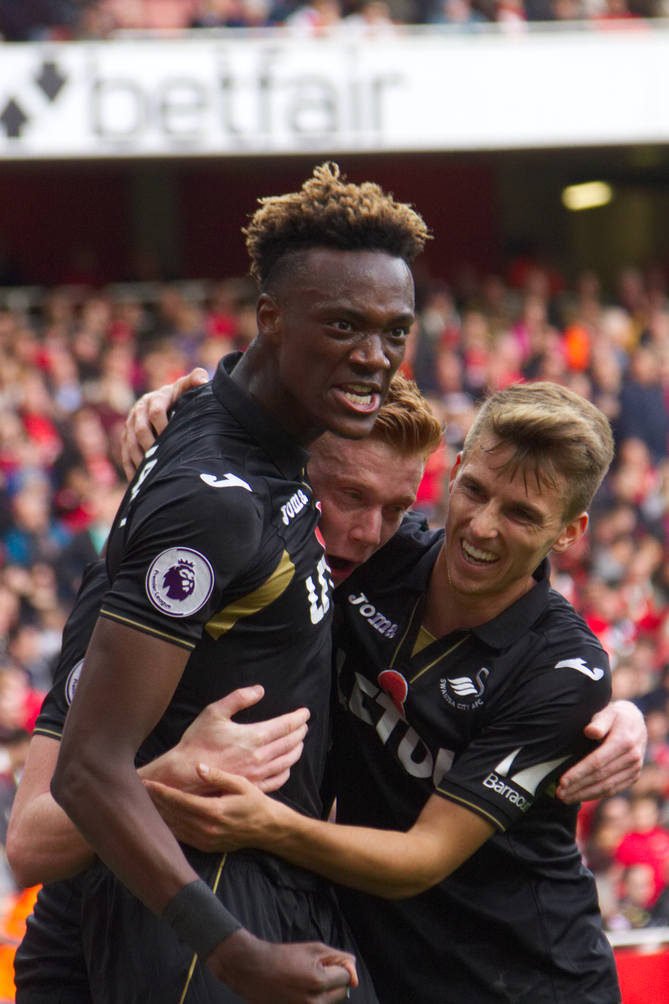 Goal celebrations